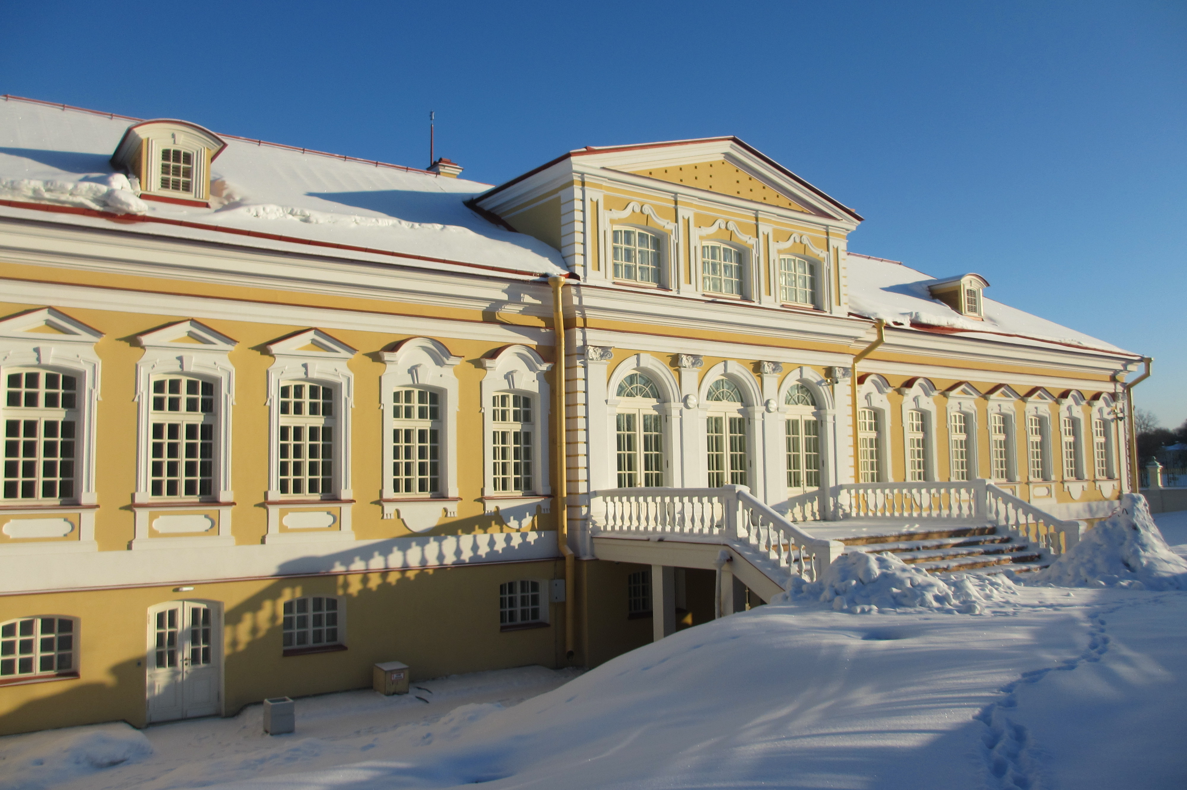 Picture Hall in Oranienbaum, Russia